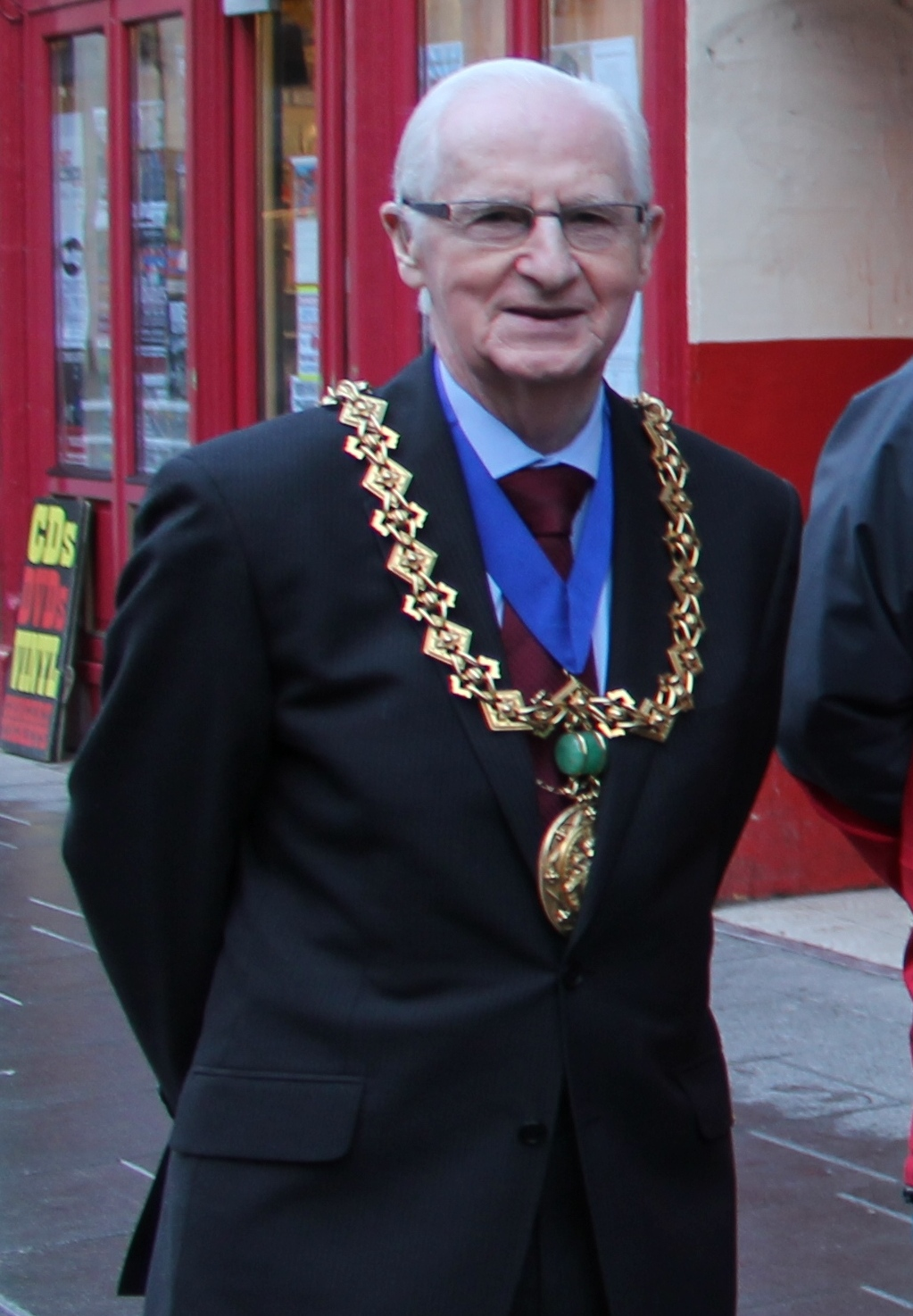 John Letford, former Lord Provost of Dundee.